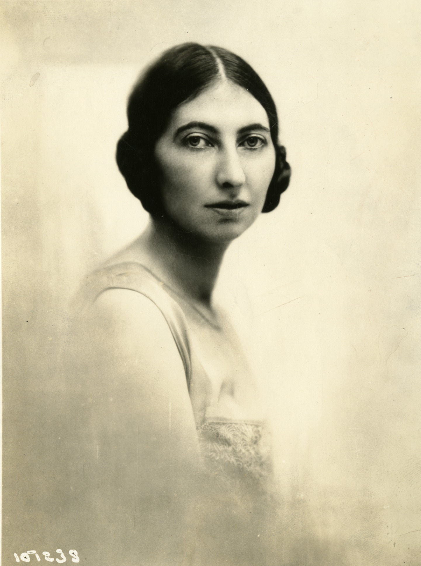 Subject: Kennedy, Margaret 1896-1967 Type: Black-and-White Prints Topic: Novelists Genetics Local number: SIA Acc. 90-105 [SIA-SIA2008-4746] Summary: This photograph's caption explained that English novelist Margaret Moore Kennedy (1896-1967) "has demonstrated that a good story can be written which follows the rules of heredity." Kennedy's novel The Fool of the Family had been recently praised by geneticist Wilhelmine Marie Euteman Key (b. 1872), "... it is not necessary to ignore the laws of heredity in order to produce an interesting fiction family.... Dr. Key says that Margaret Kennedy's appeal to heredity, is entirely in line with the latest conclusions in the field." (Marjorie Van de Water, "False Fiction Families," Science News Letter, August 29, 1931). Cite as: Acc. 90-105 - Science Service, Records, 1920s-1970s, Smithsonian Institution Archives Persistent URL:Link to data base record Repository:Smithsonian Institution Archives View more collections from the Smithsonian Institution.